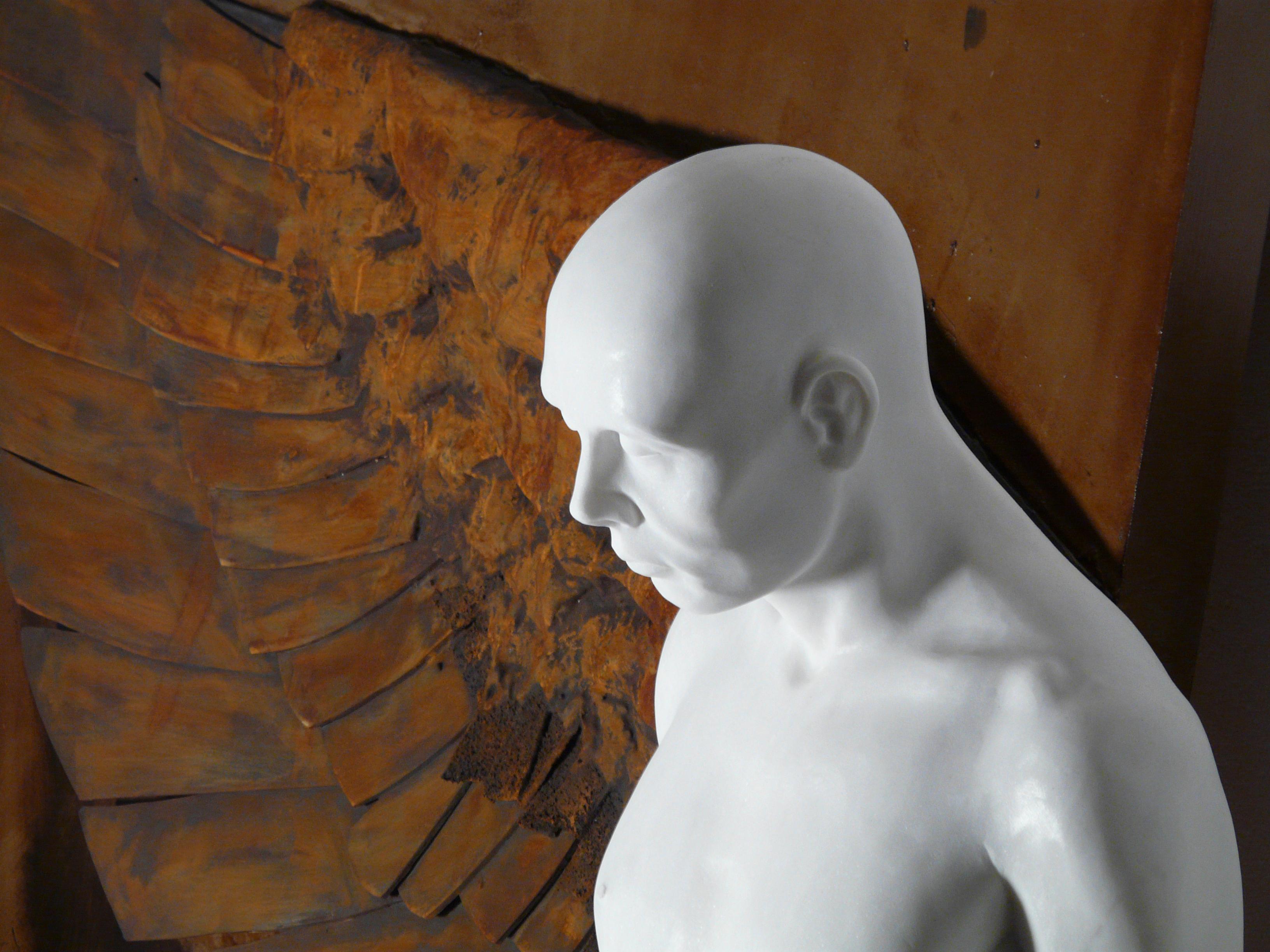 Icarus - Portuguese sculptor Rogério Timóteo